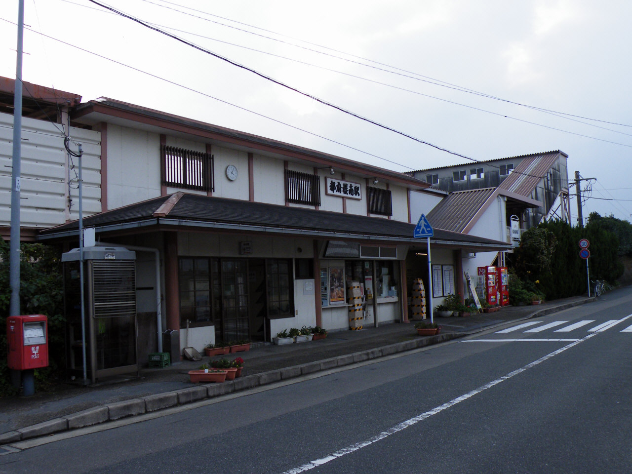 JRKyushu Tofurominami Station